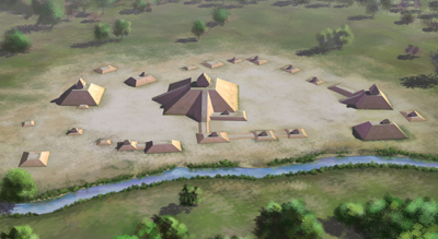 An artists conception of the Winterville Site, (22 WS 500), a Plaquemine culture mound site in Washington County, Mississippi, USA. The type site of the Winterville Phase (1200 to 1400 CE).